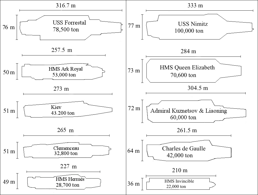 A deck area comparison of the aircraft carriers of two post-war generations